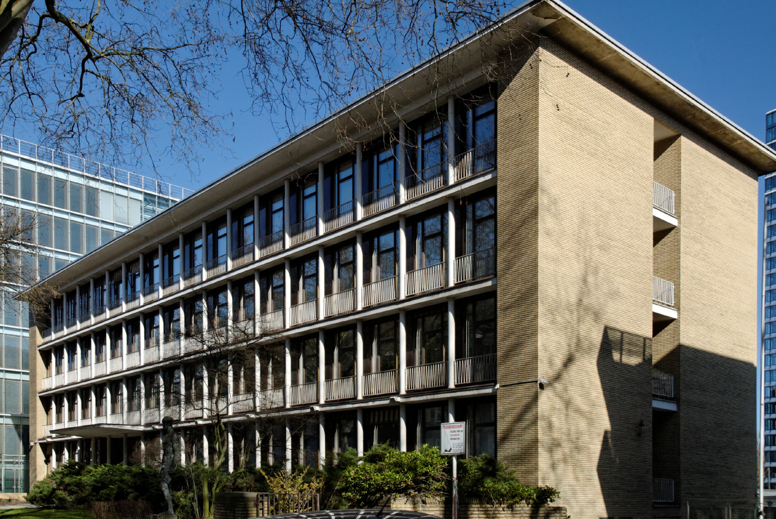 House Kaiserswerther Straße 137 in Düsseldorf-Golzheim, Germany